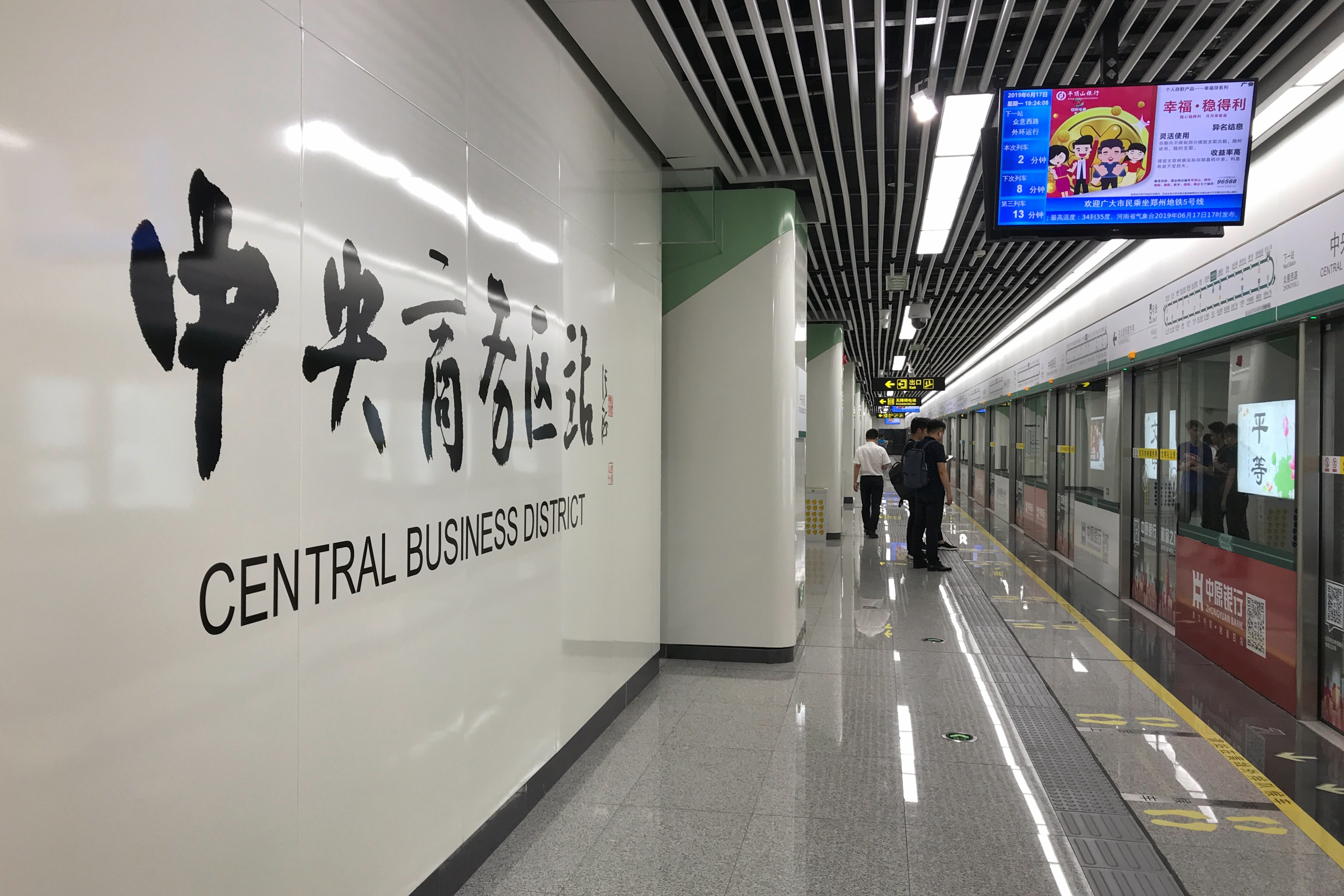 Calligraphy at Central Business District Station of Zhengzhou Metro